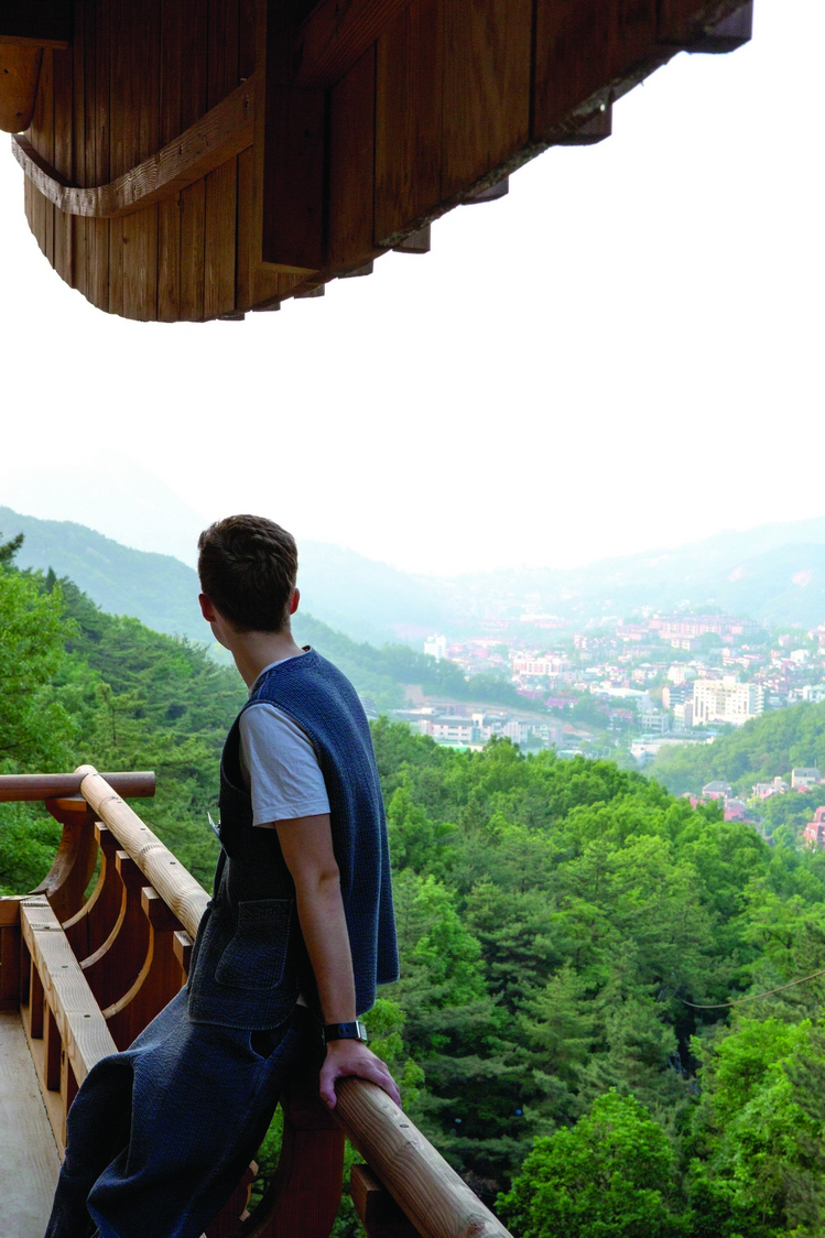 Geumsun temple2